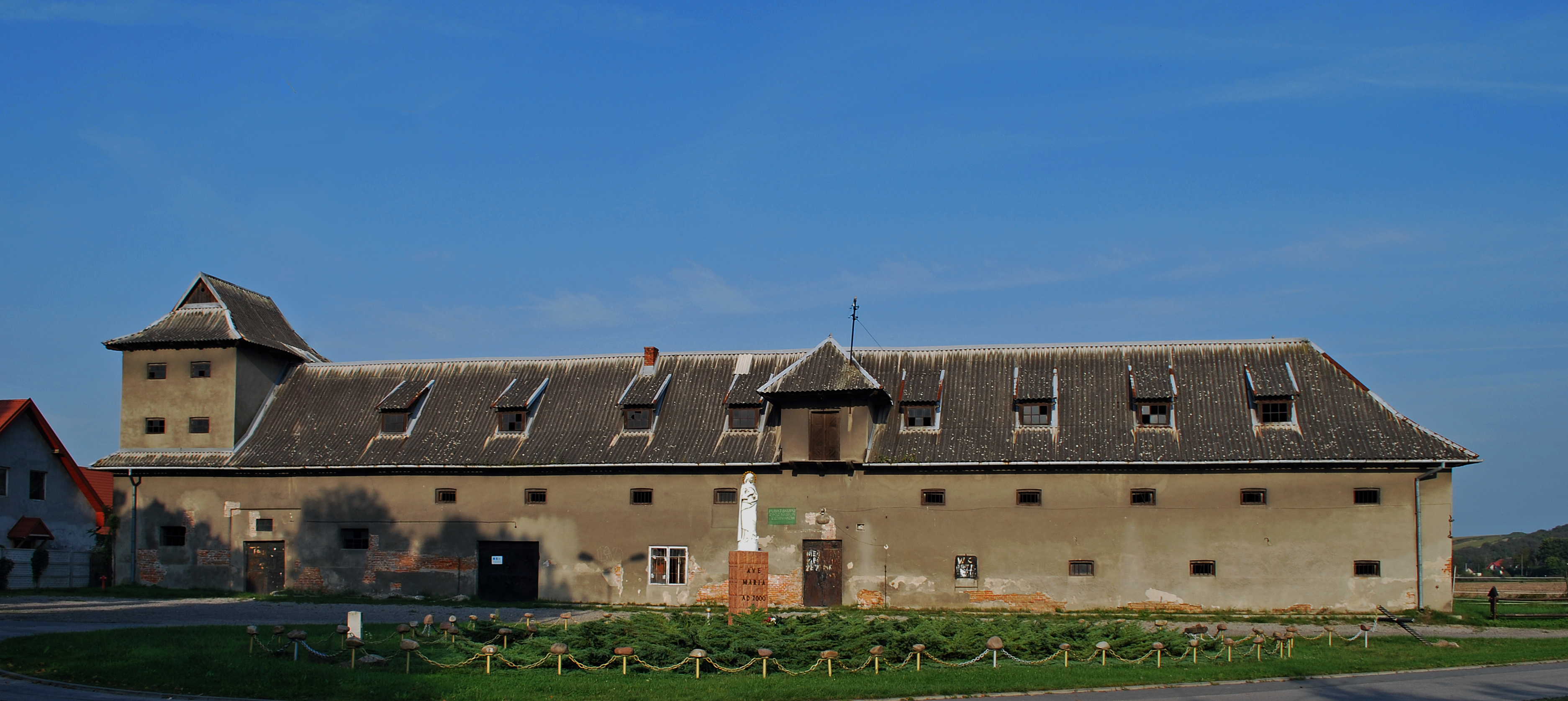 Granary, former Premonstratensians monastery, Hebdów village, Proszowice county, Lesser Poland Voivodeship, Poland